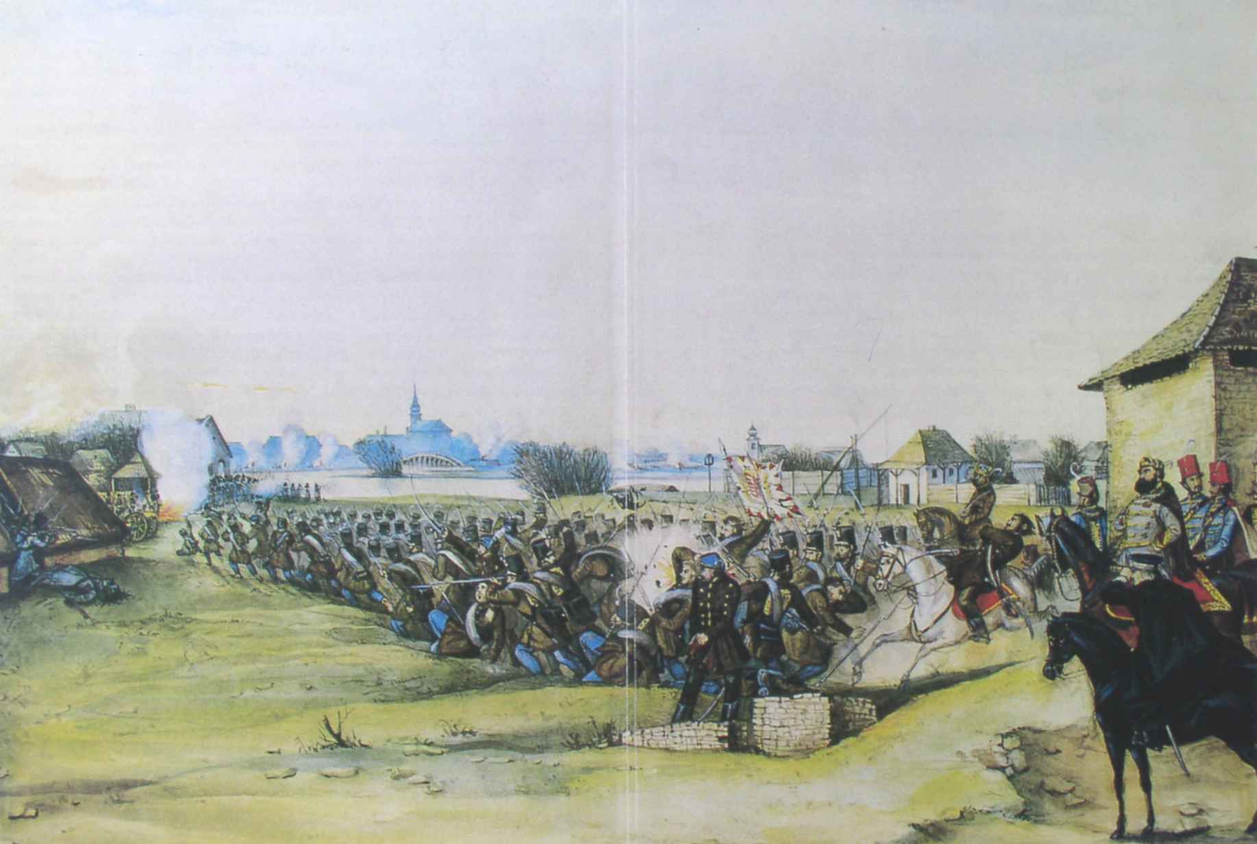 The battle of Szolnok, 1849